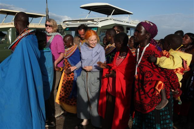 With Vivienne Westwood and EFI in rural Kenya